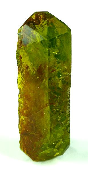 Despujolsite Locality: N'Chwaning III Mine, N'Chwaning Mines, Kuruman, Kalahari manganese fields, Northern Cape Province, South Africa (Locality at ) A complete floater crystal with sharp terminations on each end. It features extreme elongation, not common to the other specimens. The core is transparent while the tips are included by a red mineral that we believe to be dendritic manganese. Collected in the summer of 2010. Analyzed by Dr. Robert Downs at the University of Arizona. 1.4 x 0.6 x 0.3 cm.